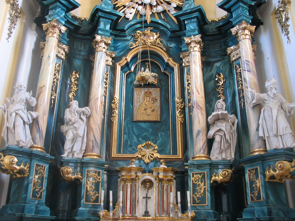 Interior of Roman Catholic parish church of Assumption of Mery, Buchach, Ternopil Oblast, Ukraine